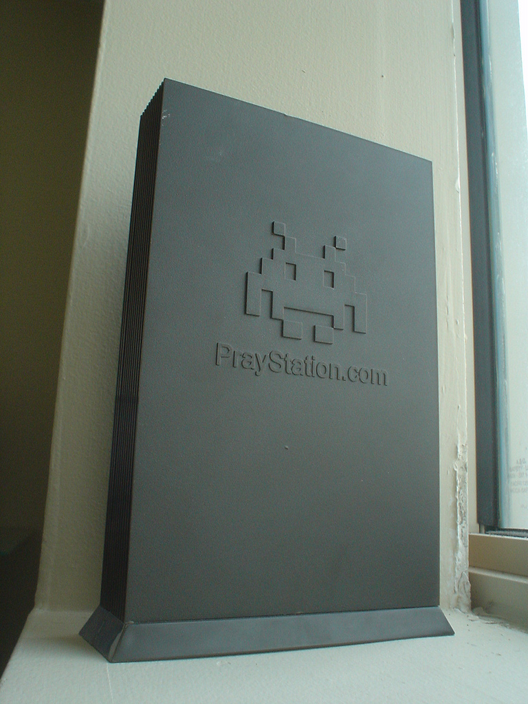 PrayStation Hard Drive